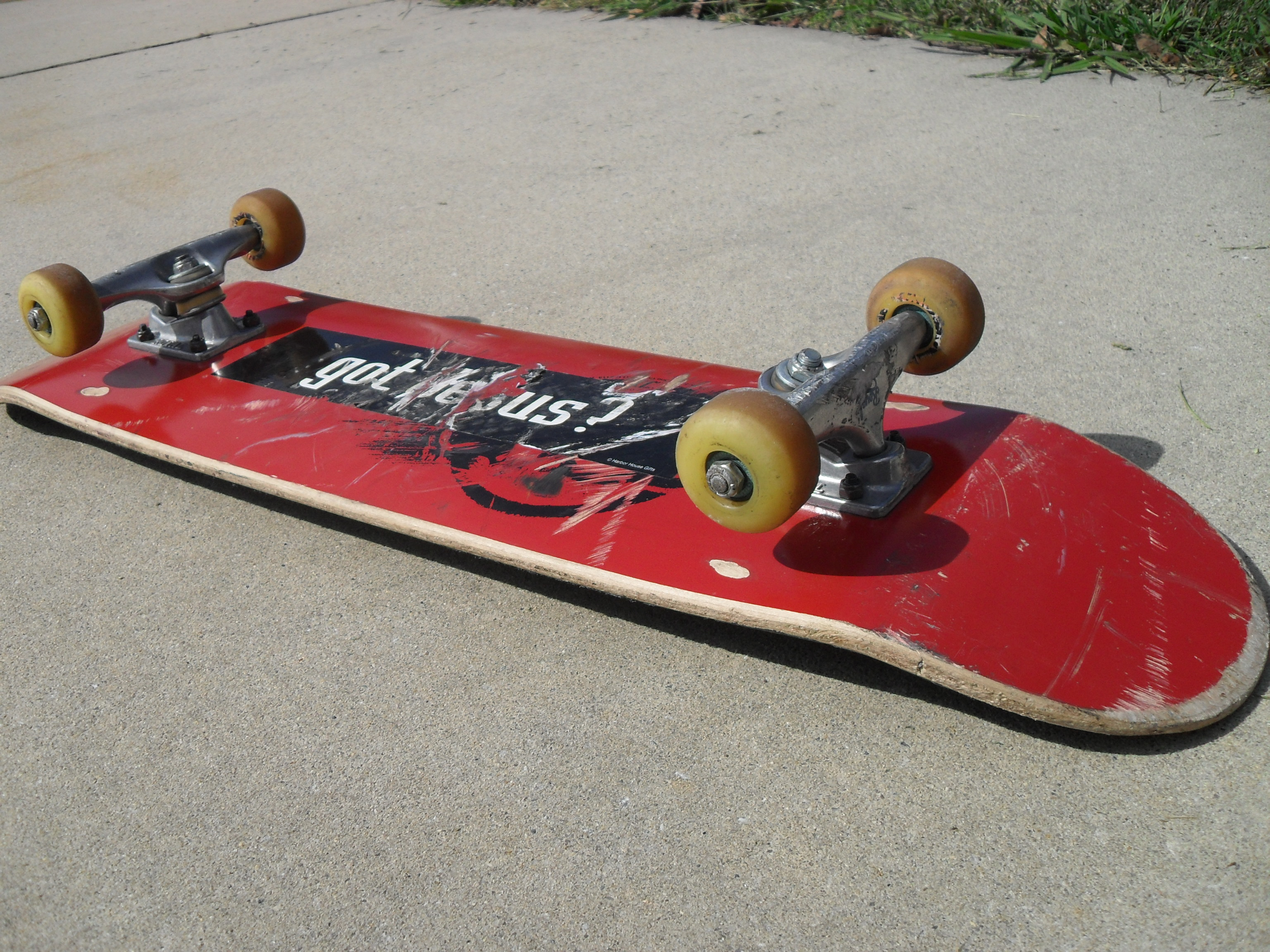 Picture of Skateboard origanly posted at